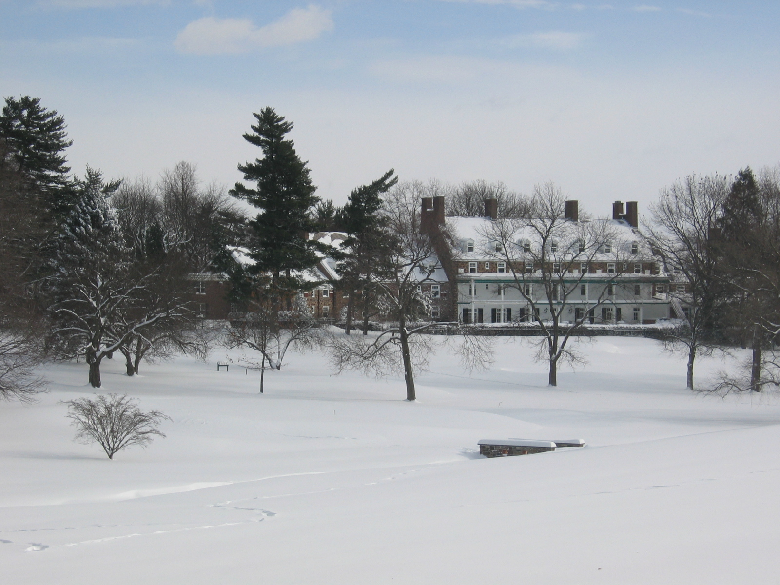 Forbes College at Princetown University, from College Road West